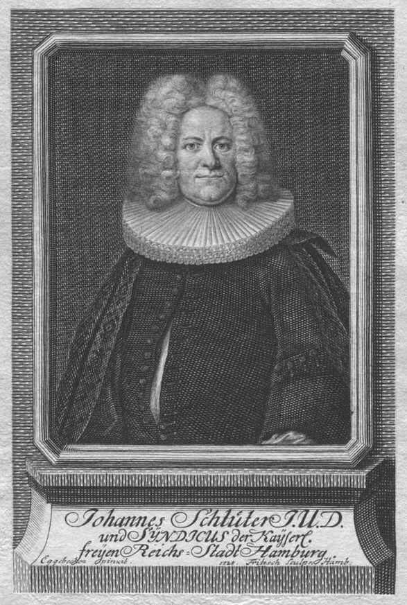 Portrait of Johann Slüter, engraving 139x91 mm